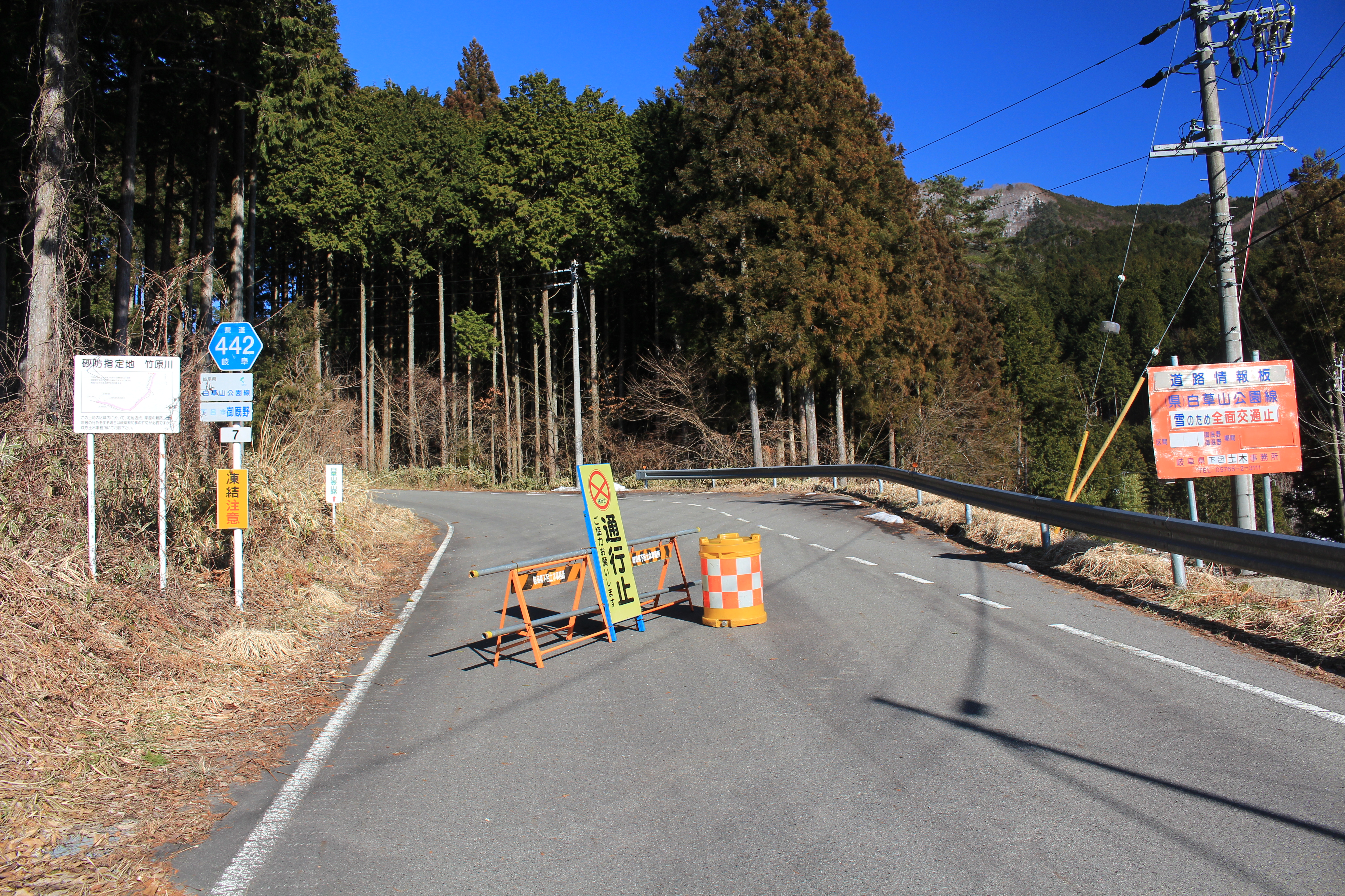 Gifu Prefectural Road Route 442 in Mimayano, Gero, Gifu prefecture, Japan.